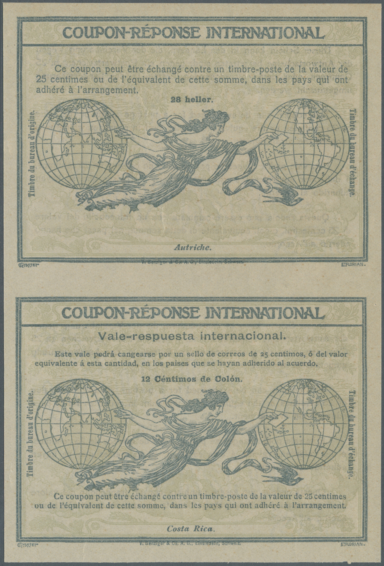 International Reply Coupon: A coupon that can be exchanged for one or more postage stamps representing the minimum postage for an unregistered priority airmail letter of up to twenty grams sent to another Universal Postal Union (UPU) member country. IRCs are accepted by all UPU member countries.